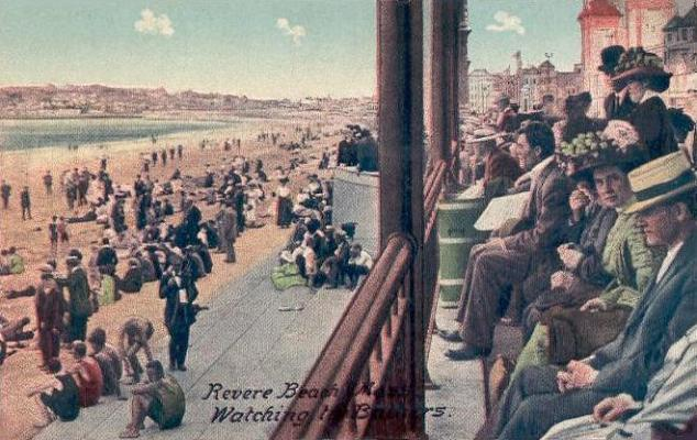 Watching the Bathers, Revere Beach, MA; from a 1910 postcard.